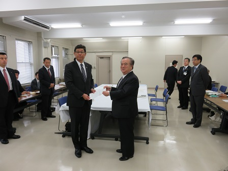 Tsuyoshi Takagi, Minister for Reconstruction, met Masaru Hashimoto, Governor of Ibaraki Prefecture, at Ibaraki Prefectural Government Sannomaru Building in Mito City, Ibaraki Prefecture on March 19, 2016.